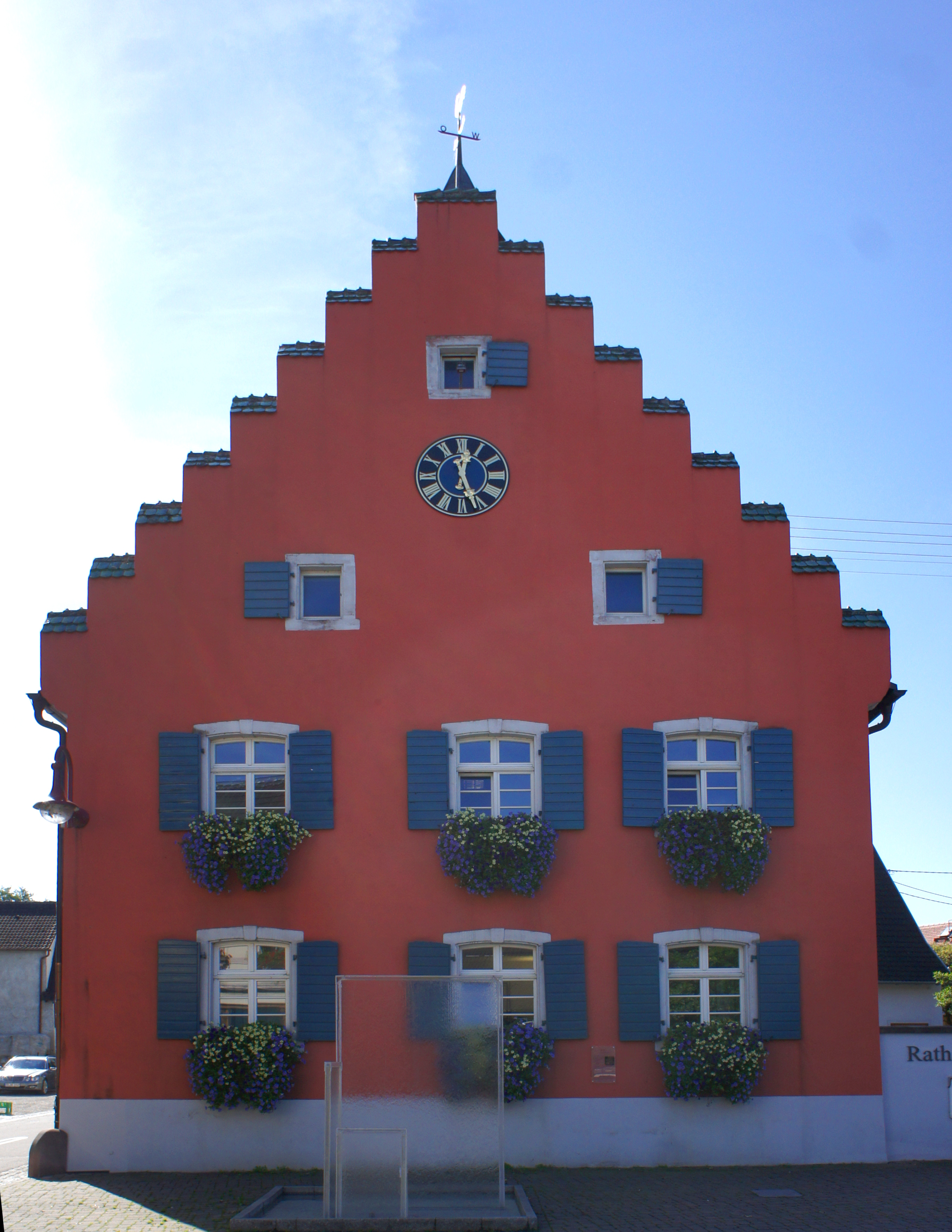 Facade of the Gottenheim Rathaus